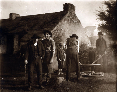 The Kerry Gow (1911), production Kalem, réalisation Sidney Olcott avec Sidney Olcott (à gauche) et Jack J. Clark..